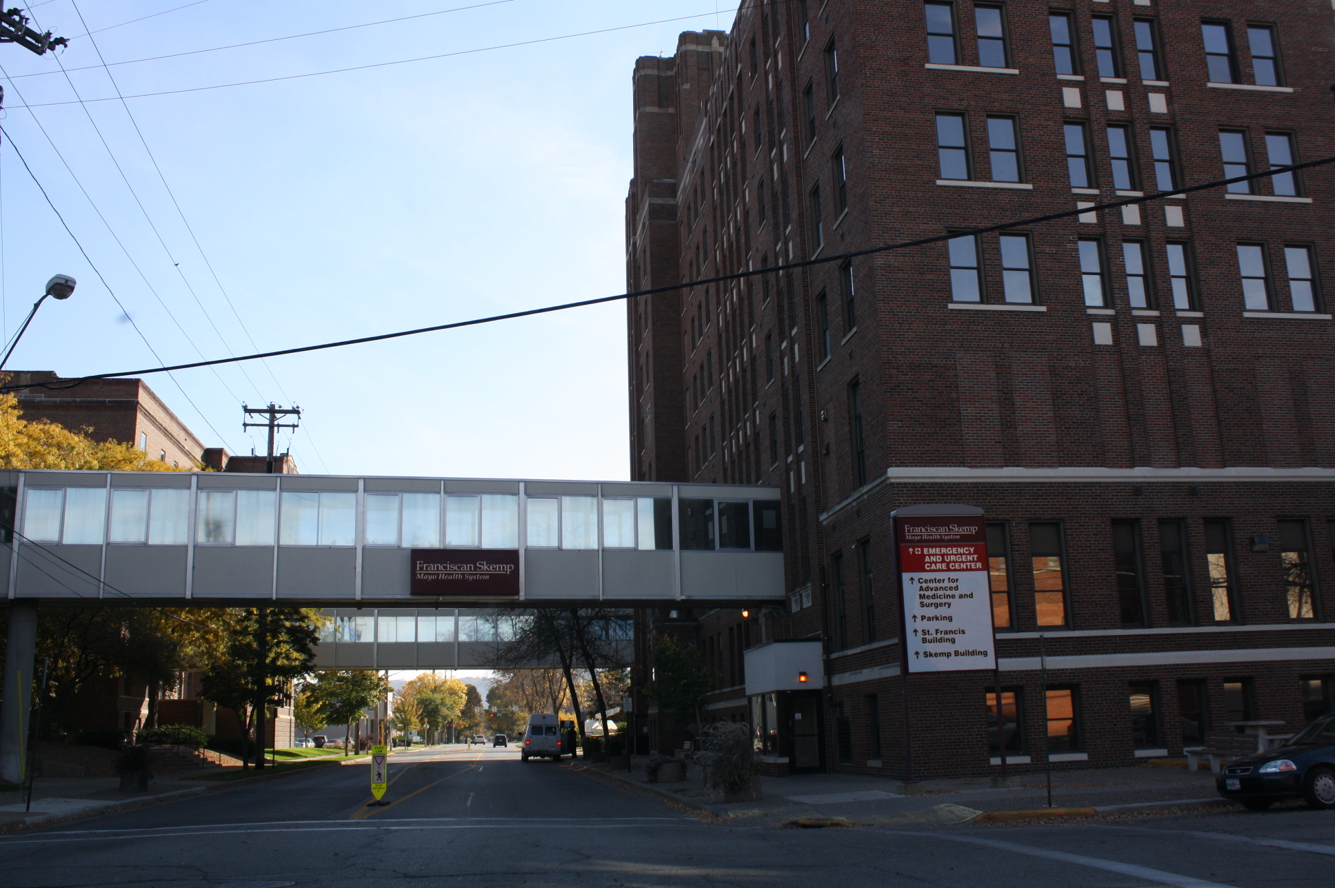 The back of the Franciscan Skemp Medical Center in La Crosse, Wisconsin.